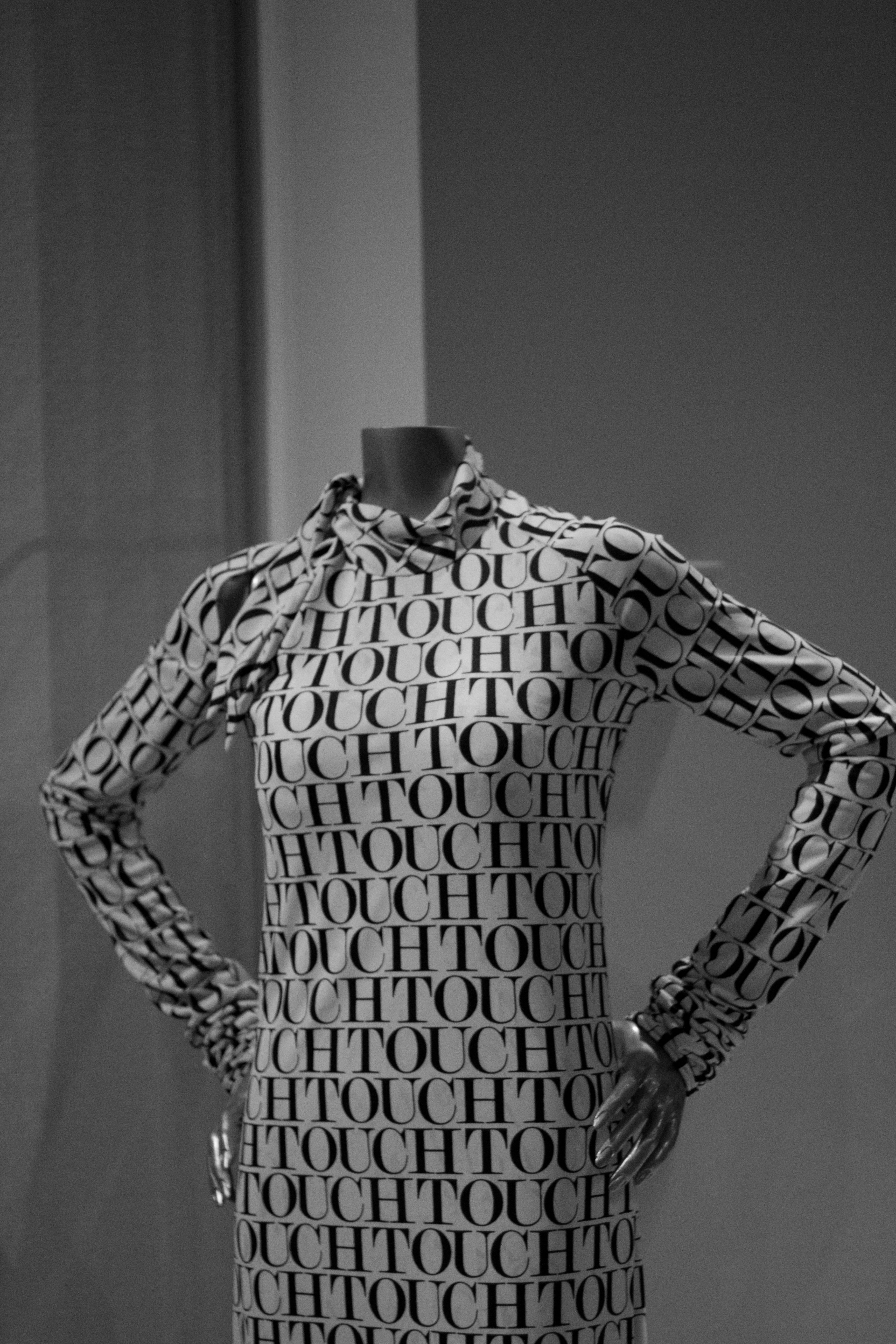 Polyester knit jersey. in 1971 Mary wilson joined with jean terreli and Cindy Birdsong to form The New Supremes. As lead singer, Mary worethis dress while promoting the first single, Touch. American Pop Art which often borrowed from advertising graphics, inspired this design.